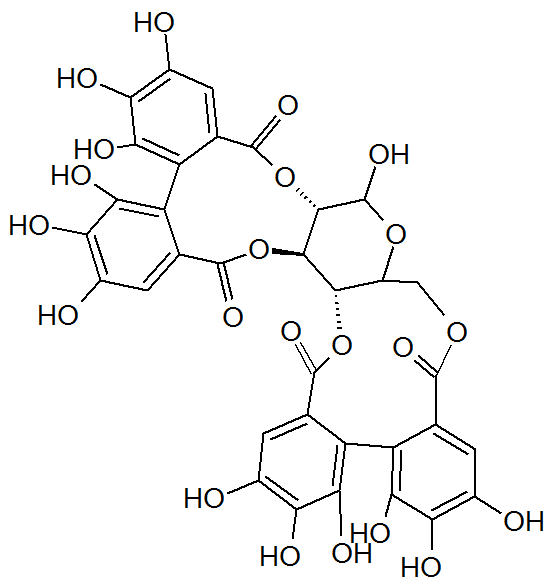 Chemical structure of pedunculagin